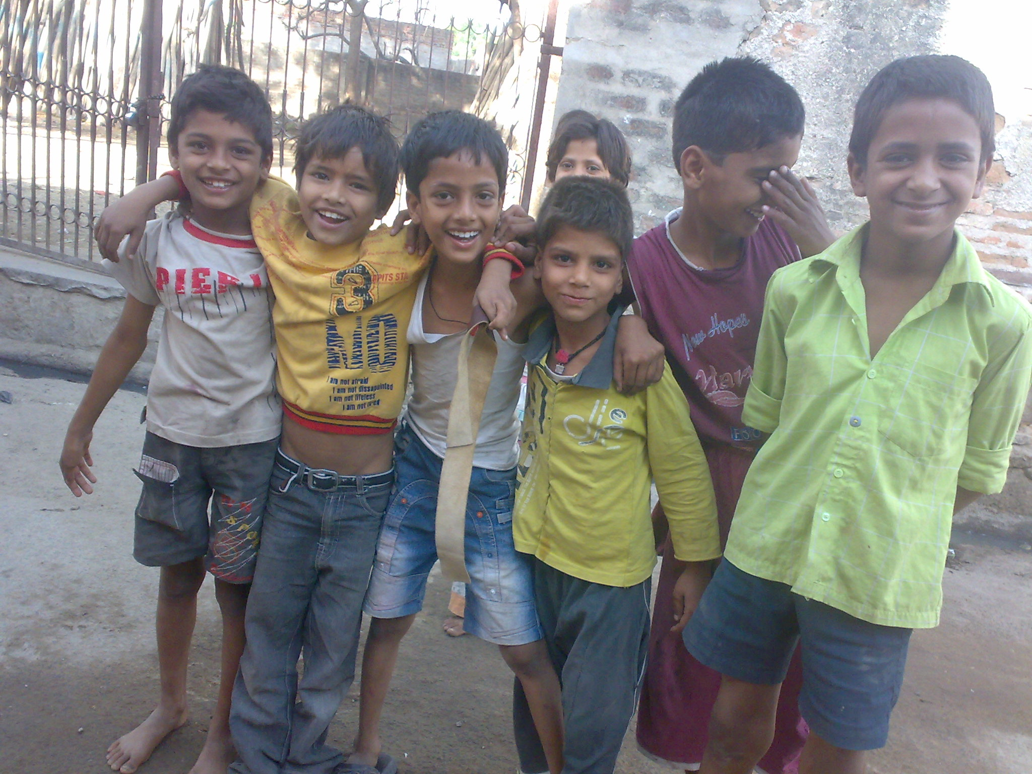 7 children